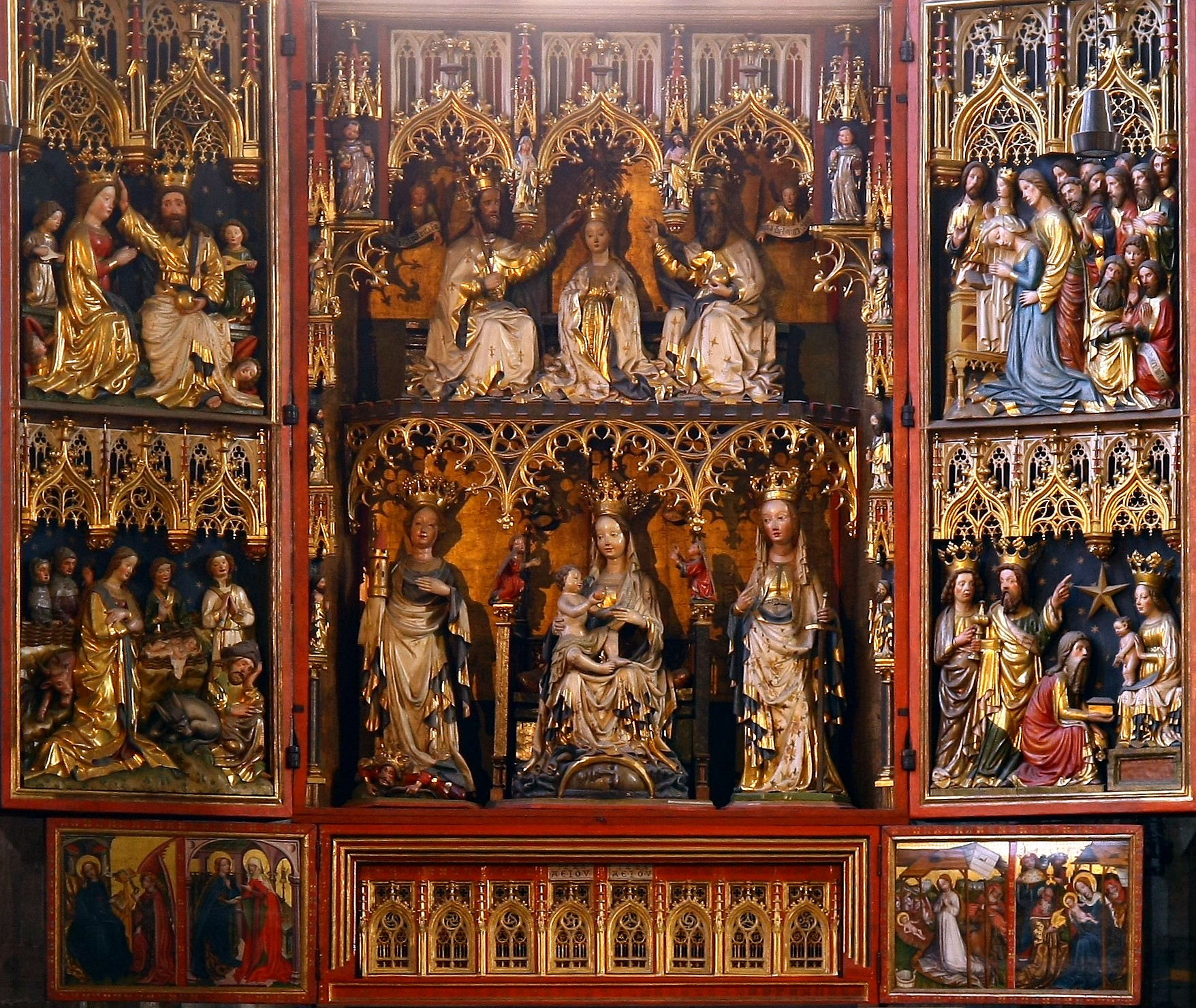 The Wiener Neustaedter Altar in St. Stephen's Cathedral, Vienna